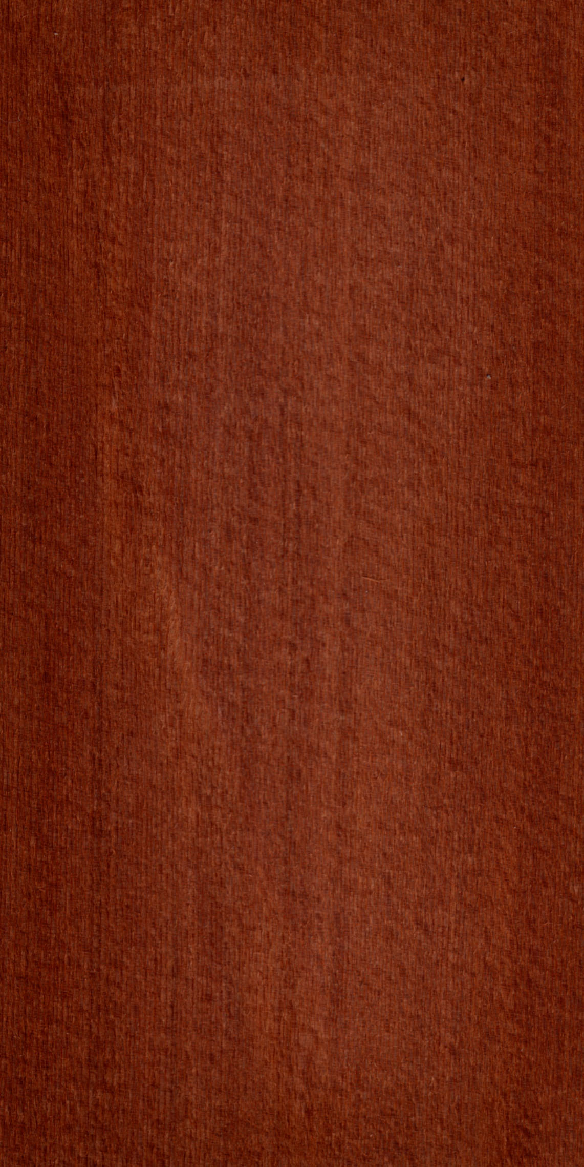 Wood of Sequoia sempervirens